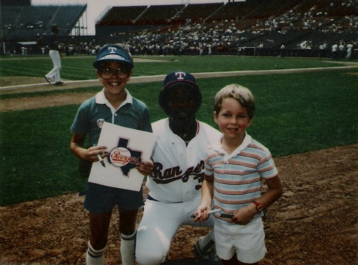 Gary Ward at Texas Rangers/Eckerd Drugs Camera Day at Arlington Stadium, Arlington, Texas Sunday, April 28, 1985.